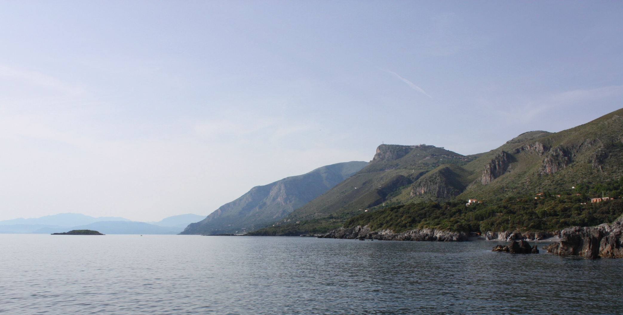 coast of Maratea.